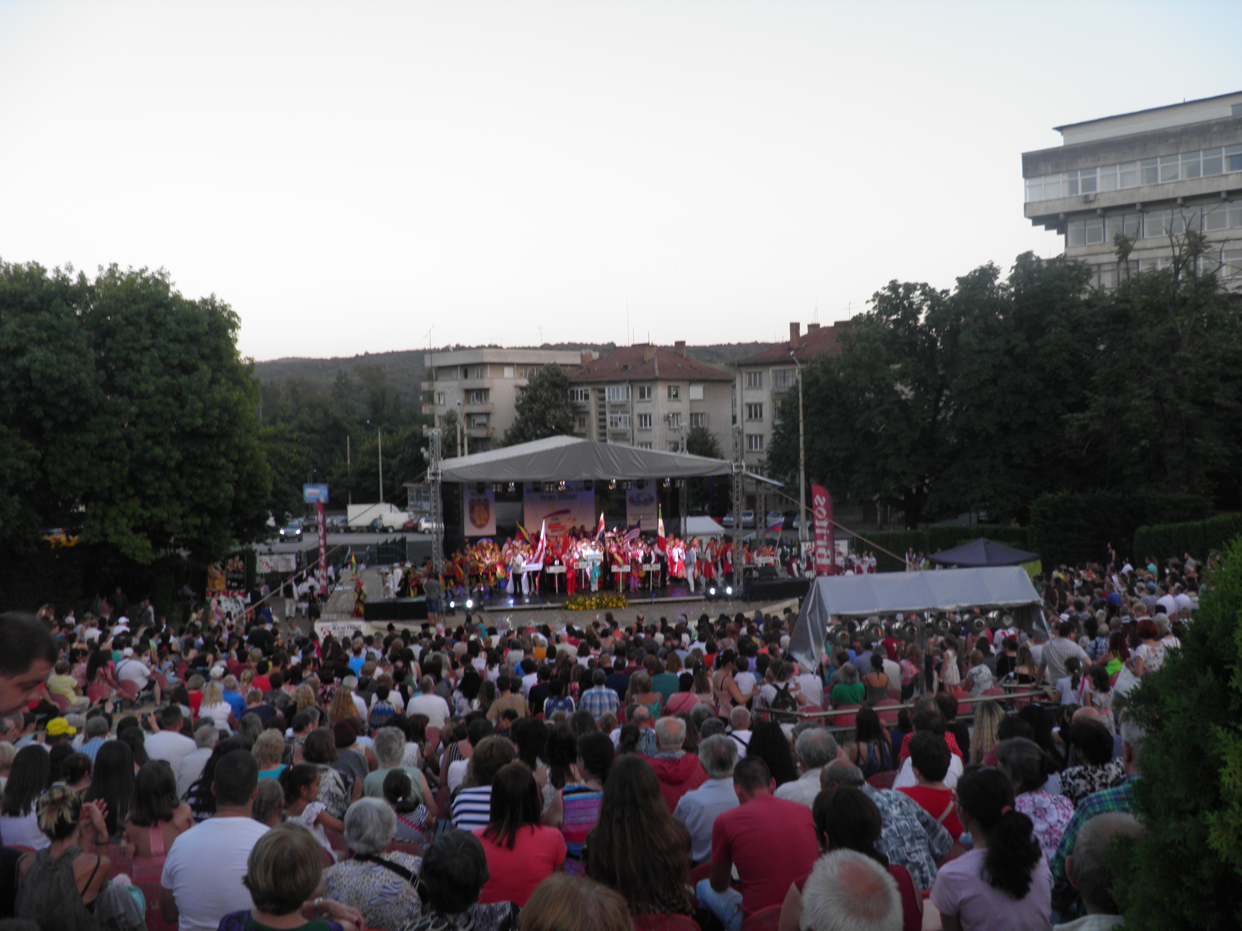 International folklore festival Veliko Tarovo in summer theater